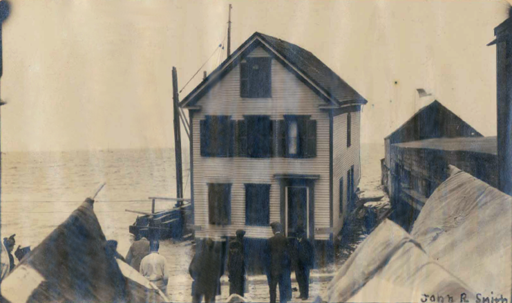 Source: Scrapbooks of Althea Boxell (1/19/1910 - 10/4/1988), Book 7, Page 81 This 1890 photo shows a house being moved from the West End to the East End of Provincetown, being floated along the harborfront to its new locations. This particular house is also believed to have already moved once in this manner, from Long Point in the 1850s. Original Caption: "A general idea of how we move in Provincetown: our house goes with us! This particular house is being moved from Gull Hill (probably one that used to be on Long Point) to Beach Point and is still there. Note scows on left of house. – 1890"